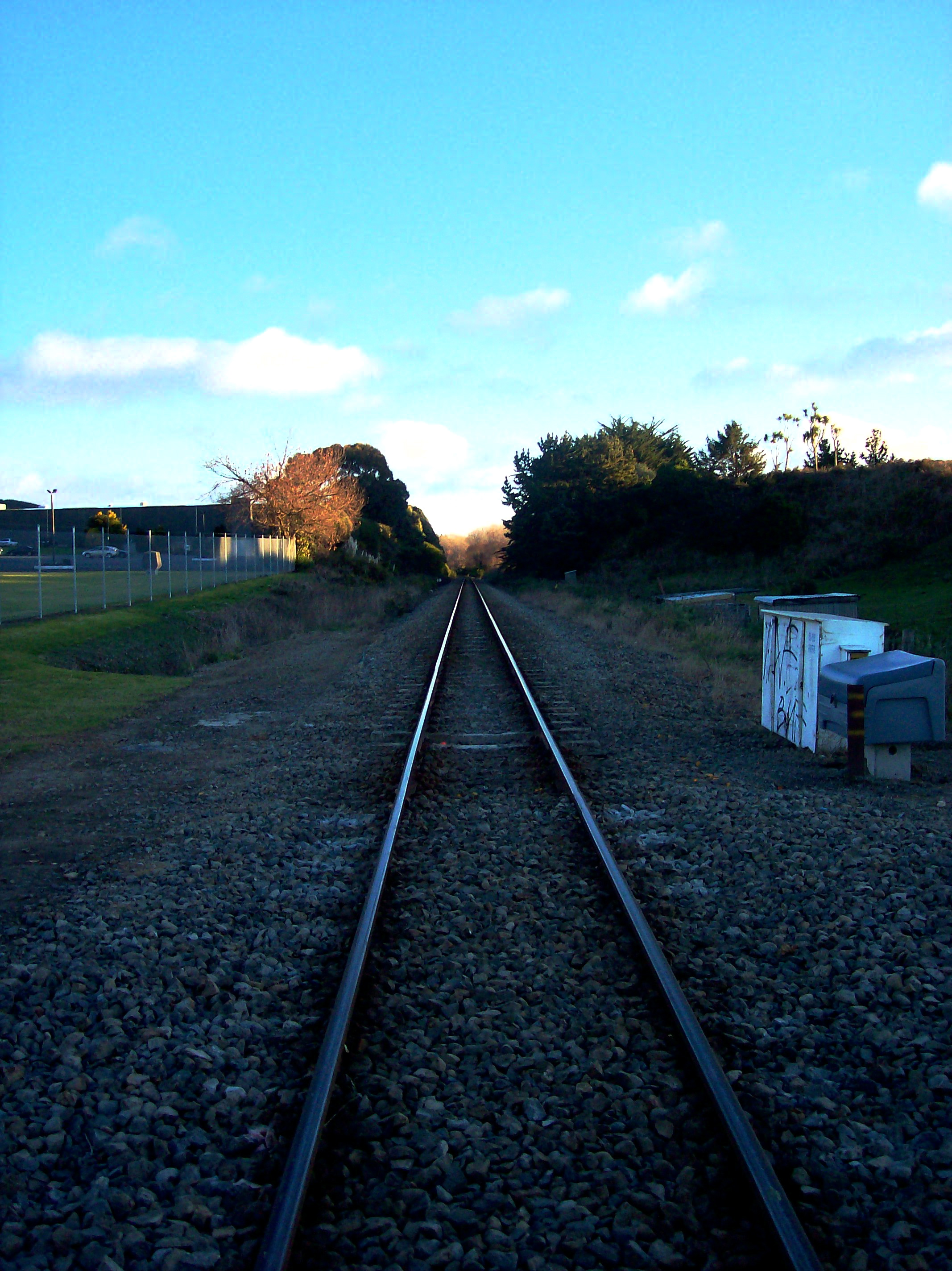 Looking south down the North Island Main Trunk Railway from the Otaihanga Road level crossing. On the left is Southward Car Museum.